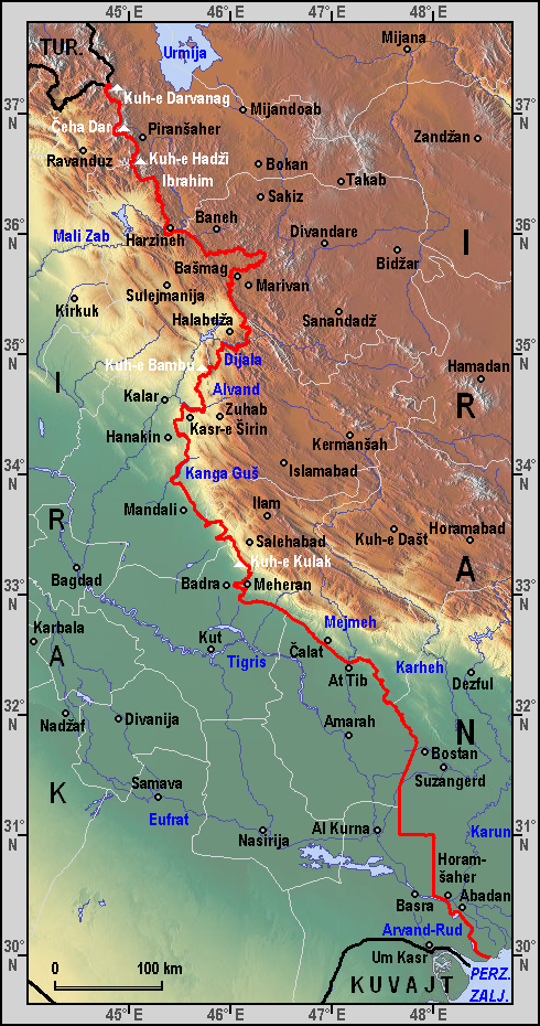 Iran-Iraqi border with Croatian descriptionHrvatski: Iransko-iračka granica